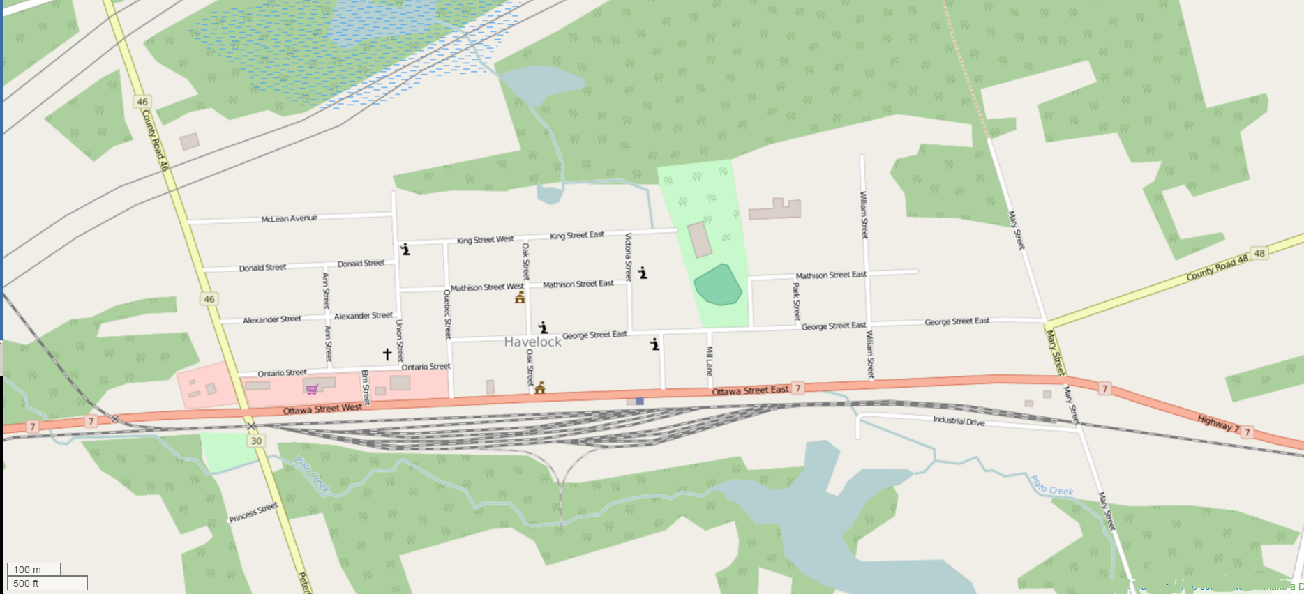 Open Street Map showing the Havelock CPR rail station and the streets that run parallel to the rails.